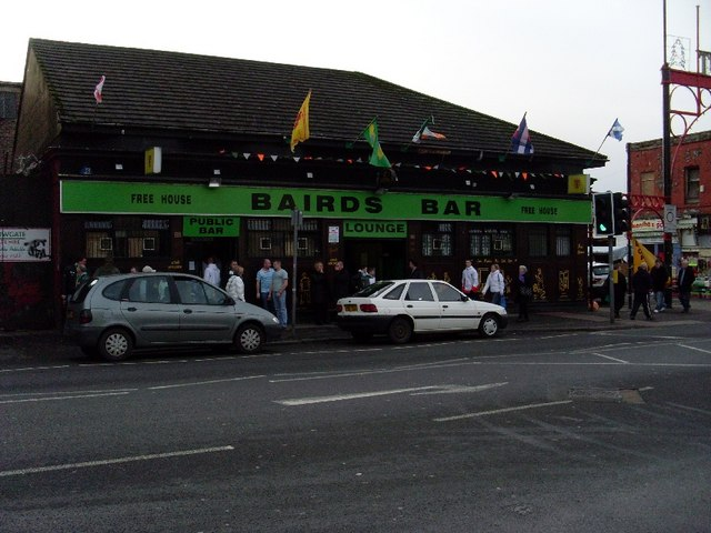 Baird's Bar, Gallowgate Very popular Irish bar - probably due to it being less than a mile from Celtic Park.